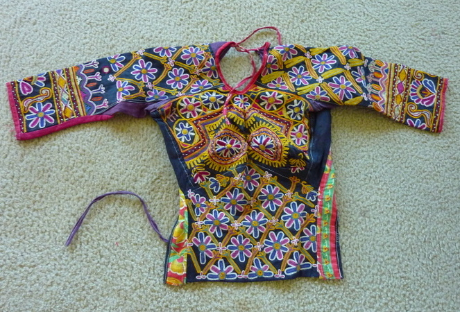 Traditional Choli from Braj region of Uttar Pradesh